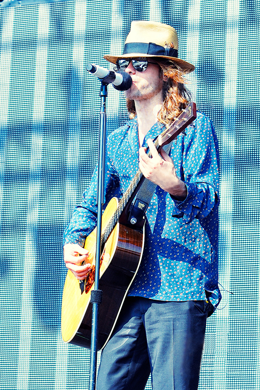 Thirty Seconds to Mars performing in Padova, Italy on July 14, 2013